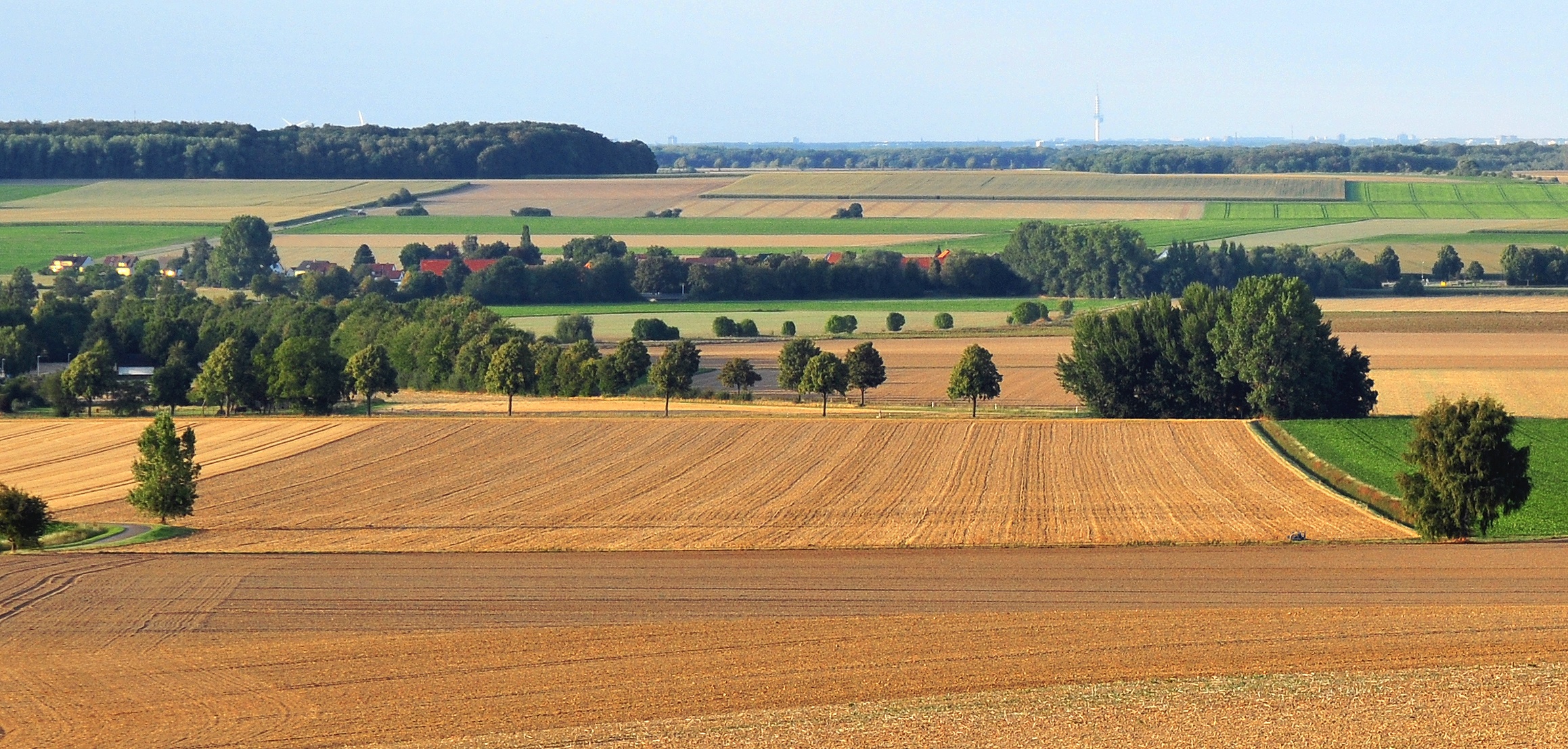 The valley of the river Haller with the village Hallerburg in Nordstemmen, district Hildesheim, Lower Saxony, Germany. In the background you can see the telecommunication tower Telemax in Hanover.